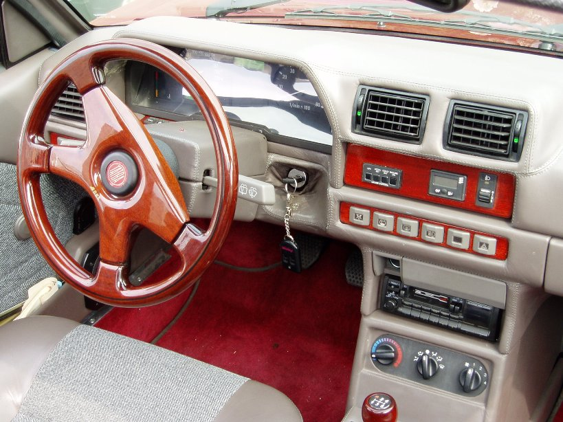 Dashboard of prototype Tatra Prezident (1994), Photo: Ondrej Ertl, 2003, Kopřivnice